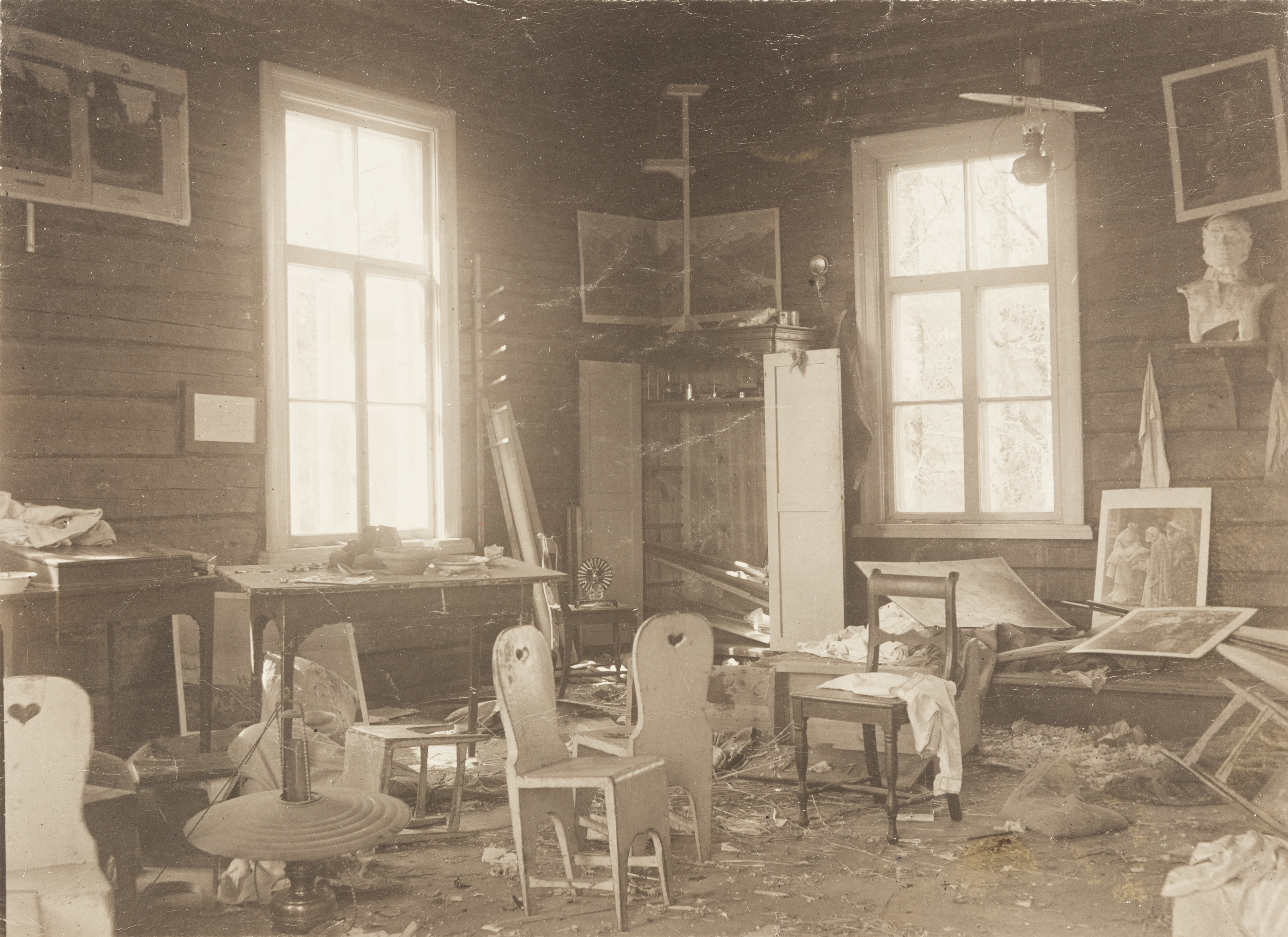 Savitaipale school after the 1918 Finnish Civil War. The school served as a Red Guard base and was damaged by a White artillery fire.